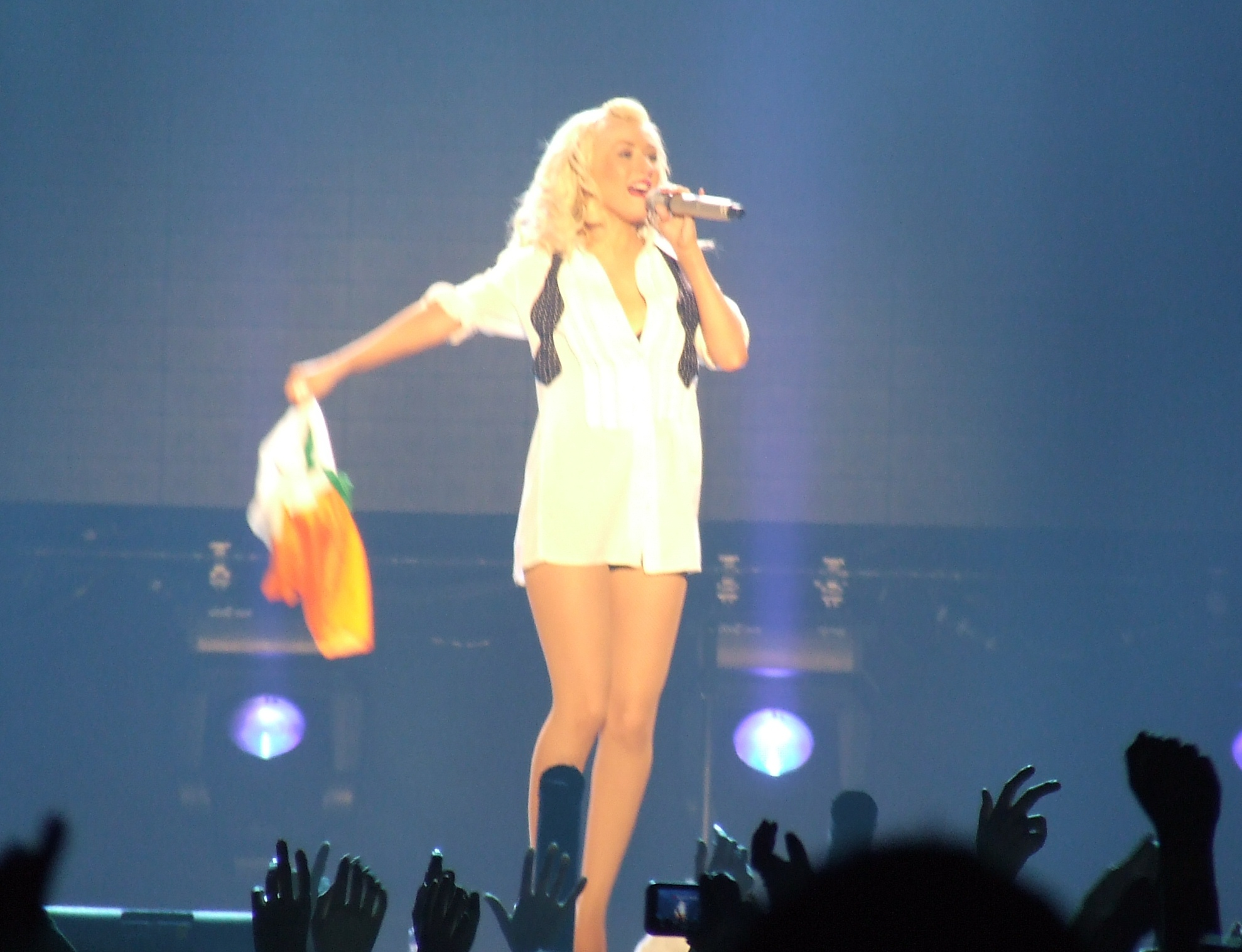 Christina Aguilera performing "Beautiful" while she says her mother is an irish person